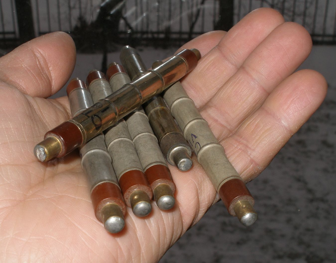 Geiger tubes STS-5 (СТС-5 in russian). Manufactured in exUSSR.